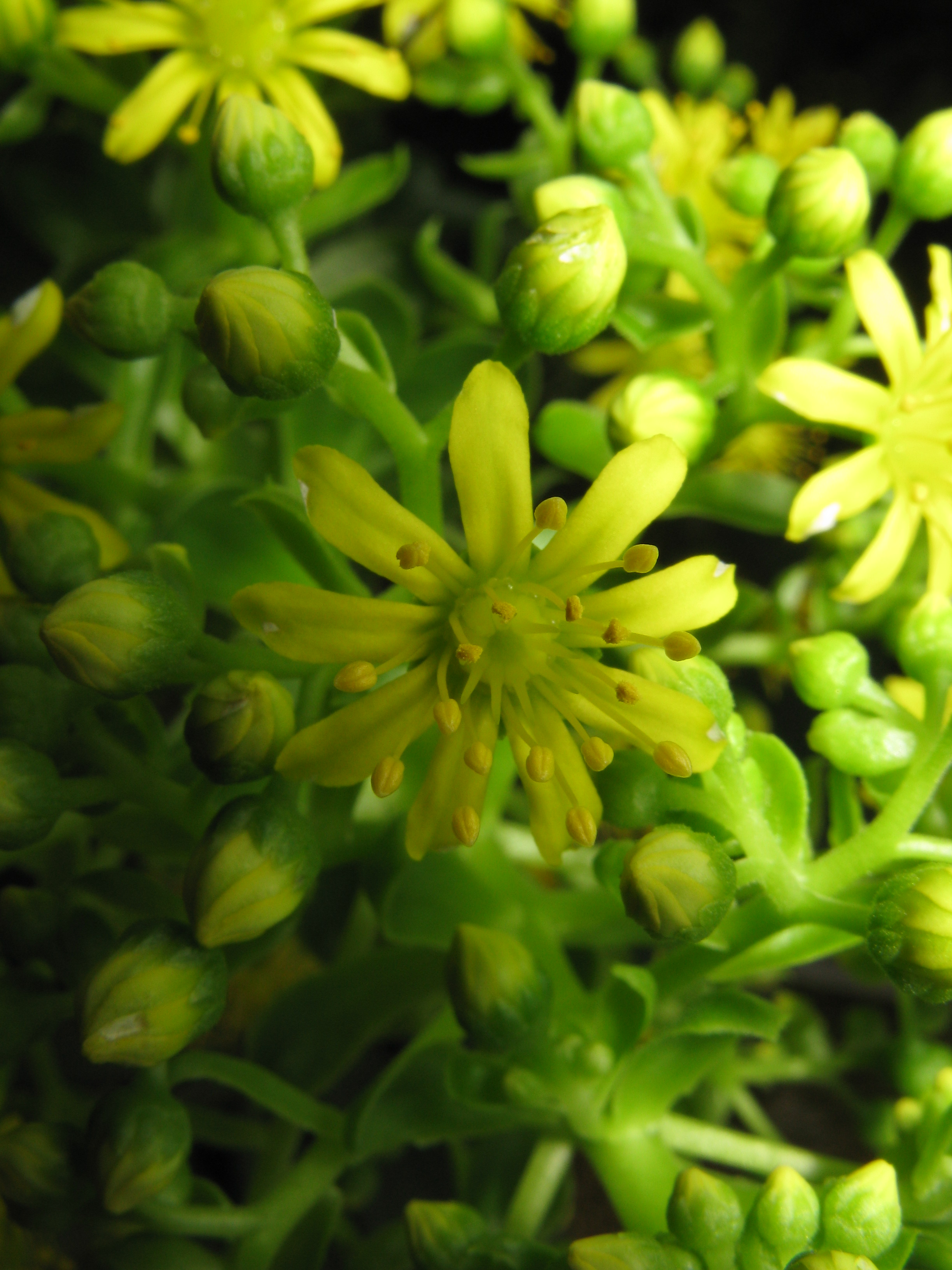 Aeonium arboreum Place:Osaka Prefectural Flower Garden,Osaka,Japan